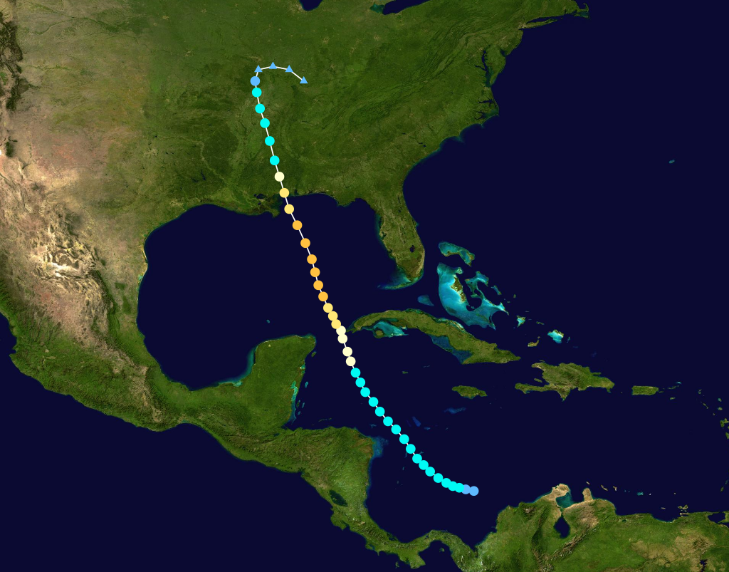 1906 Atlantic hurricane 6 track.png track. Uses the color scheme from the Saffir-Simpson Hurricane Scale.